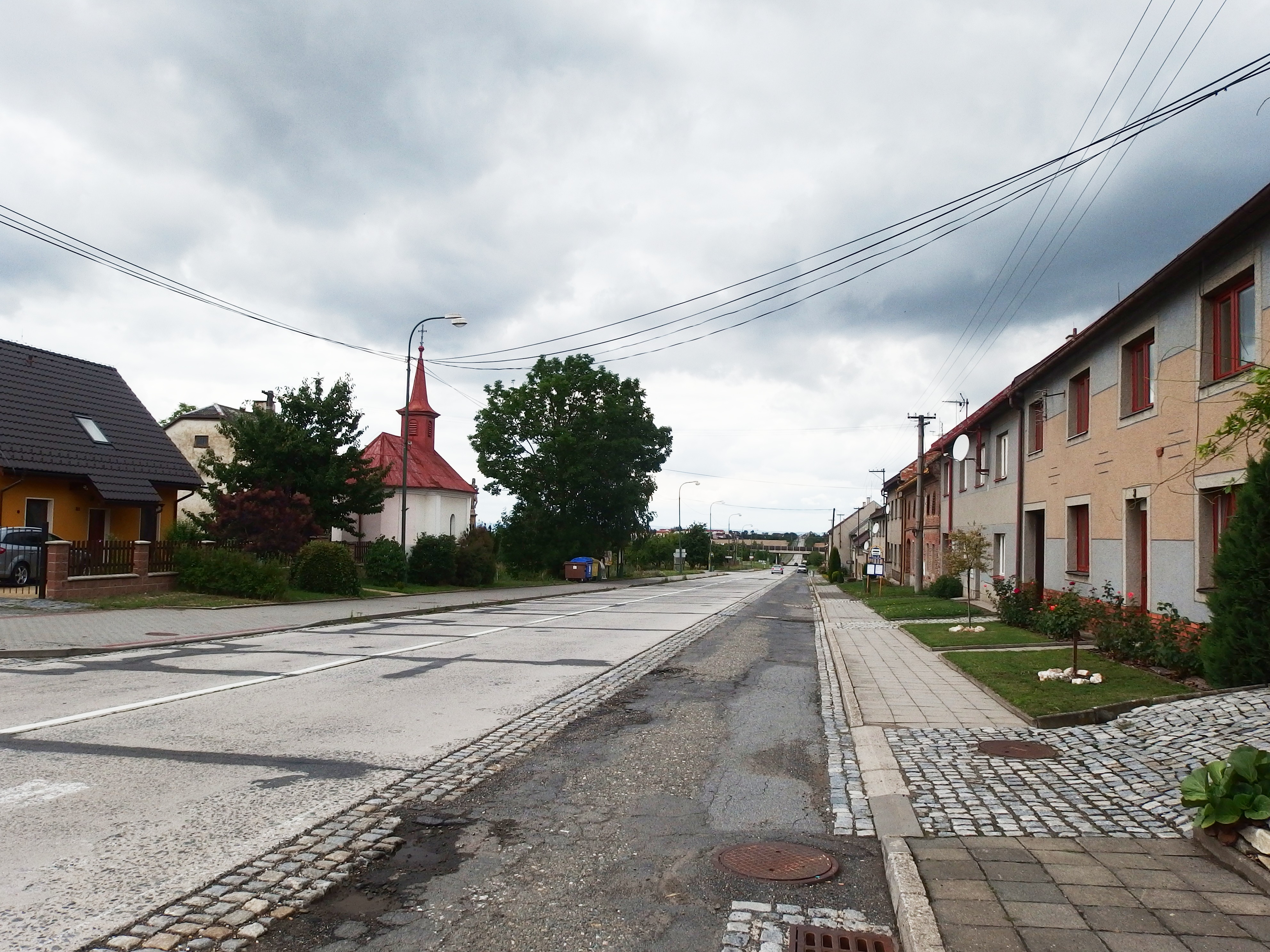 Přáslavice, Olomouc District, Czech Republic, part Kocourovec.